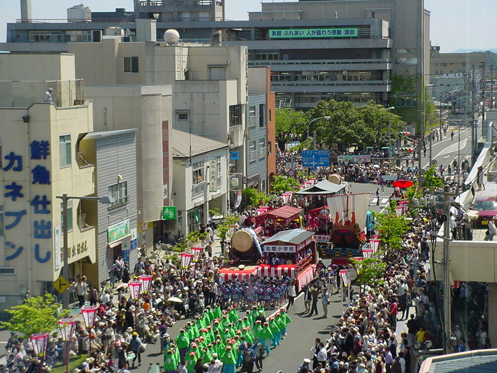 Sakata Matsuri (Sakata Festival)